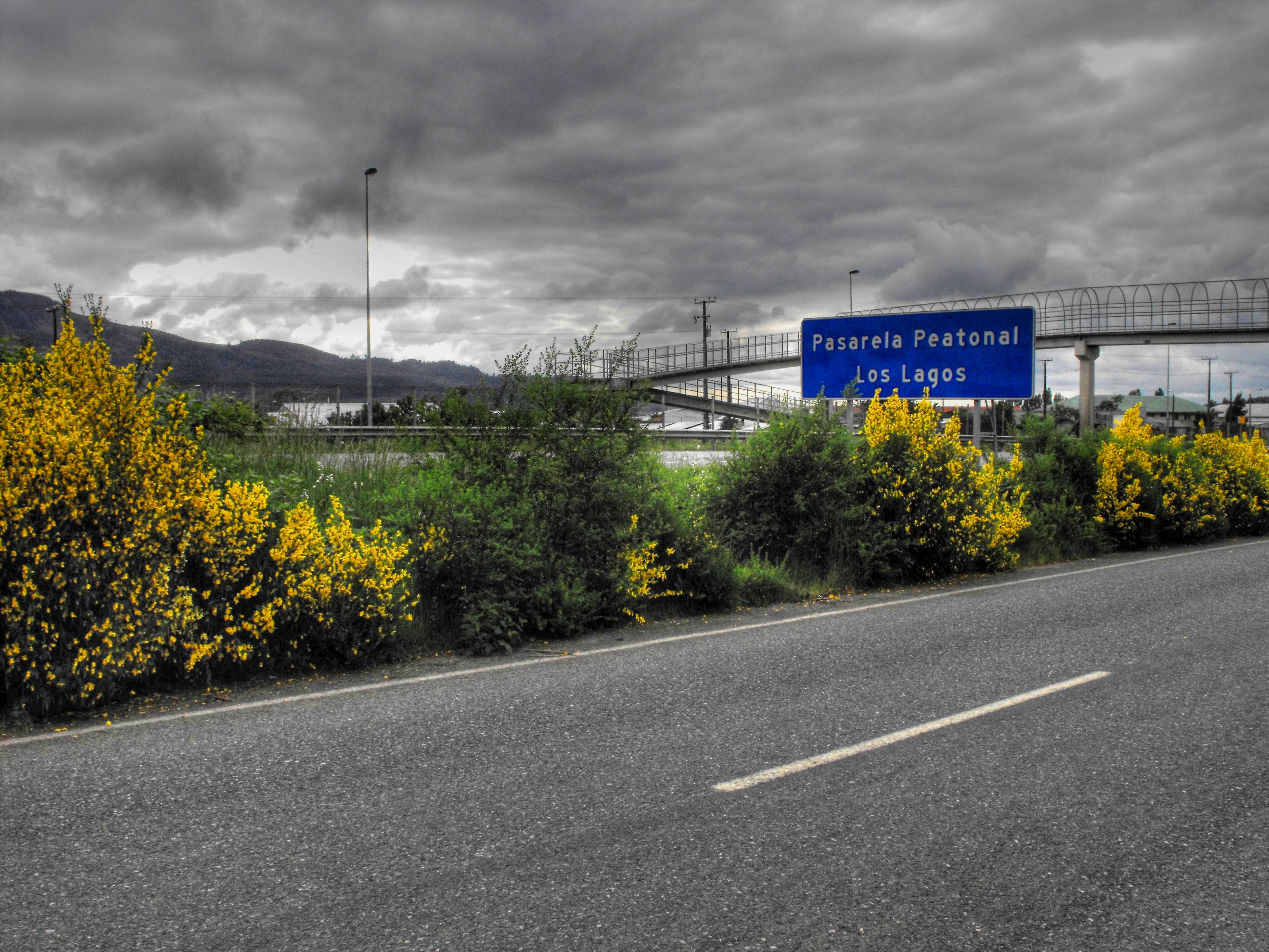 Sur inquieto